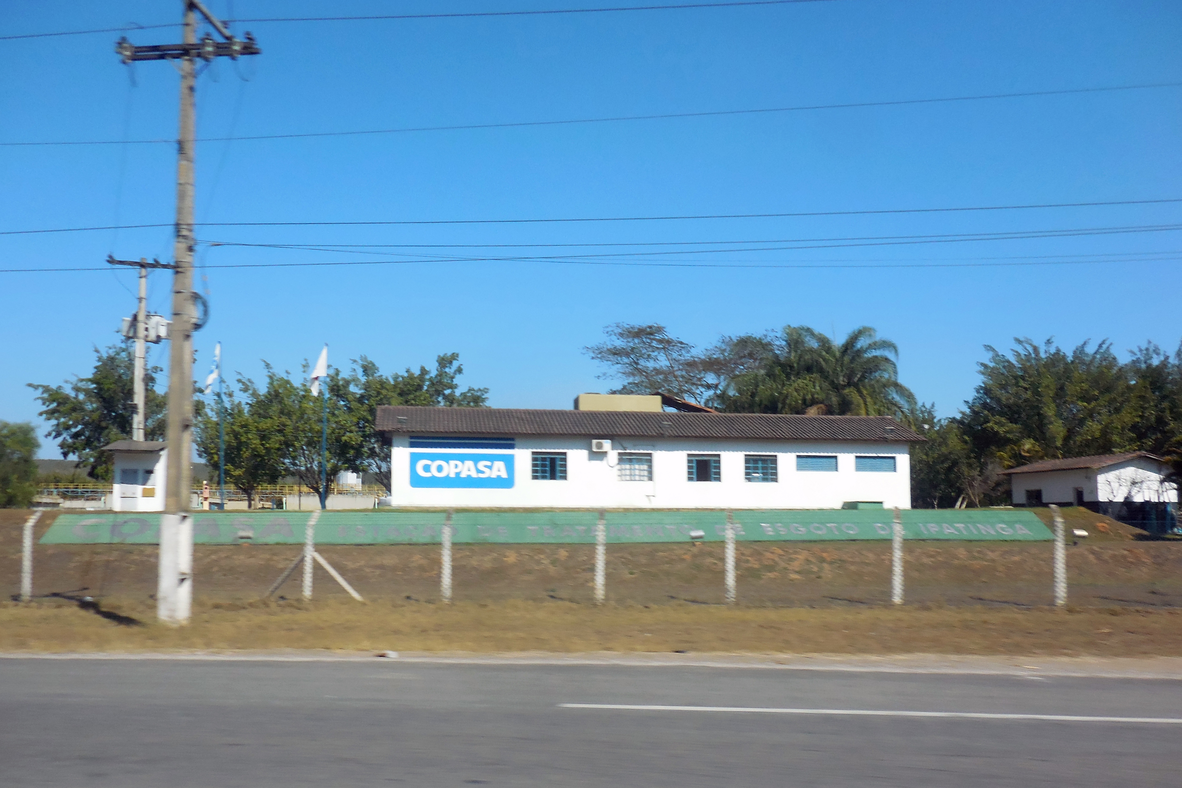 Entrance of the sewage treatment station of the Ipanema Stream, in Ipatinga, Minas Gerais, Brazil.